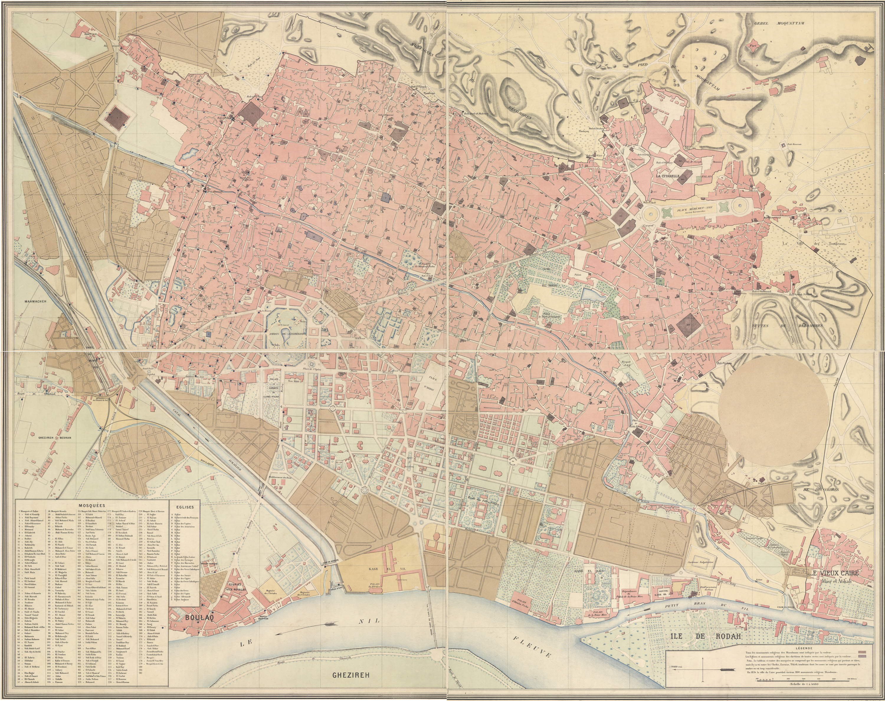 Map of Cairo, 1874